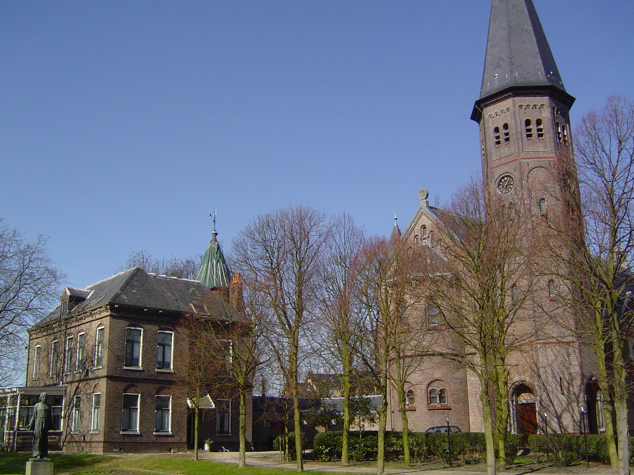 Jacobuskerk, Kethel (Schiedam) - The Netherlands